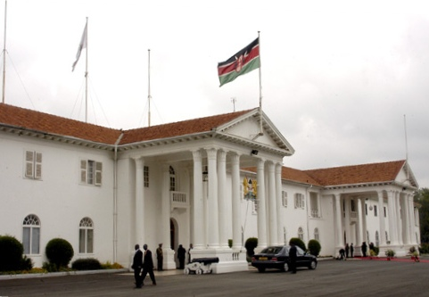 Front view of State house Nairobi where all presidential candidates eye to live in by the end of the year.